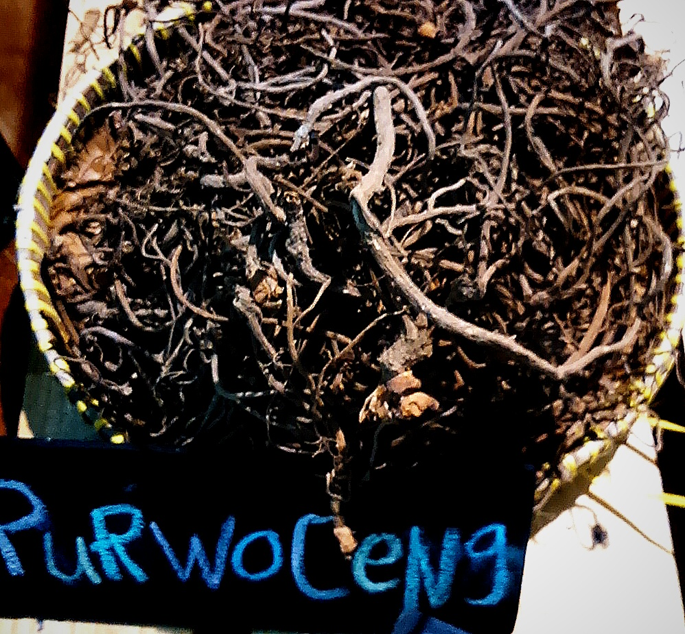 Dried root of purwoceng (Pimpinella pruatjan), prepared for jamu.